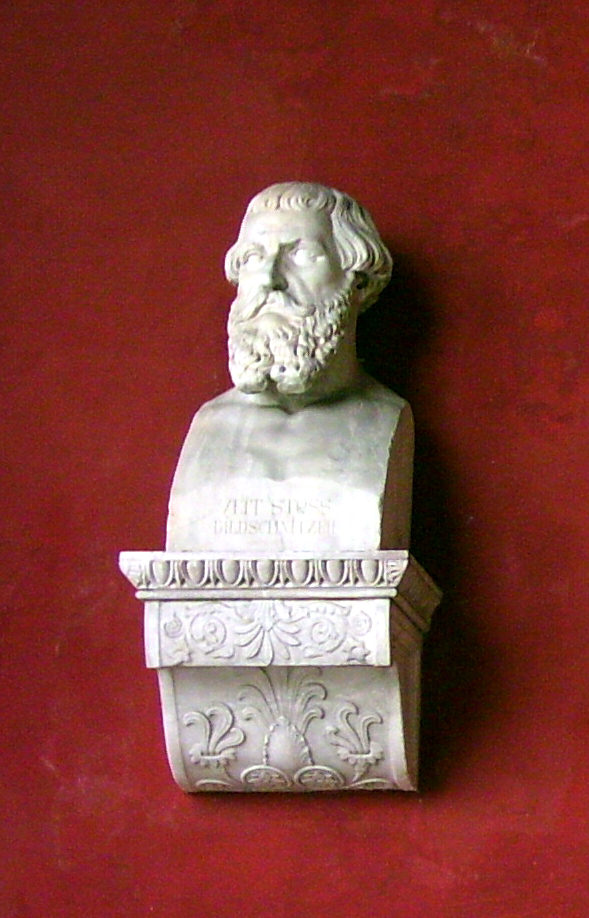 Bust of Veit Stoss at Ruhmeshalle ("Hall of fame"), München, Germany. Picture taken by myself: Dominik Hundhammer, München, 27 March 2006.